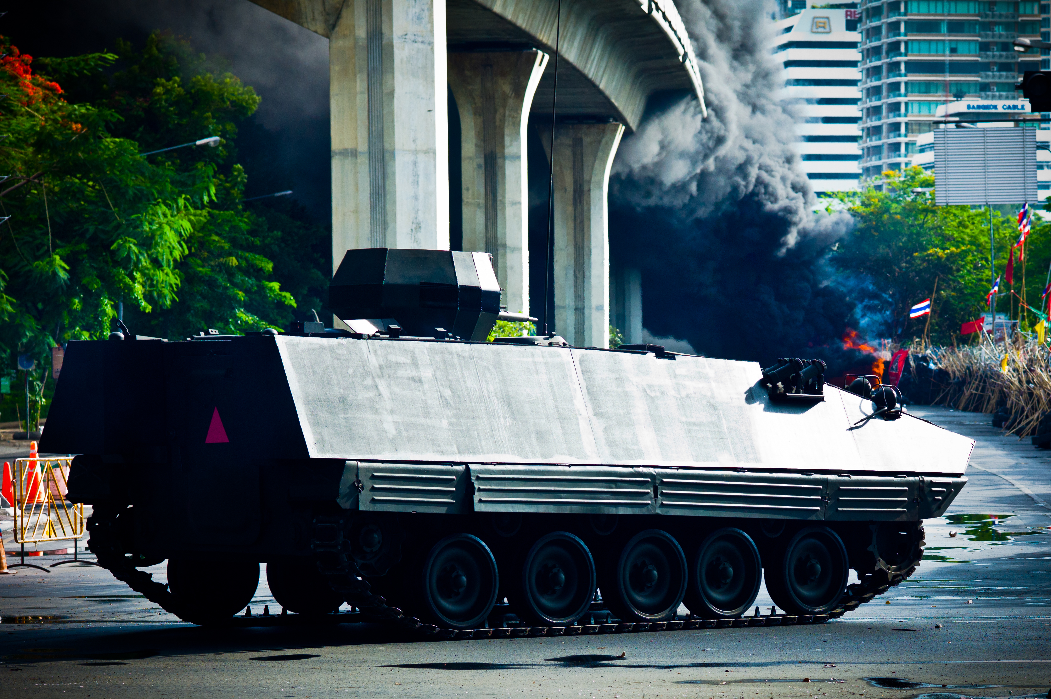 A Type-85 AFV prepares to assault the Red Shirt barricade near Chulalongkorn Hospital.